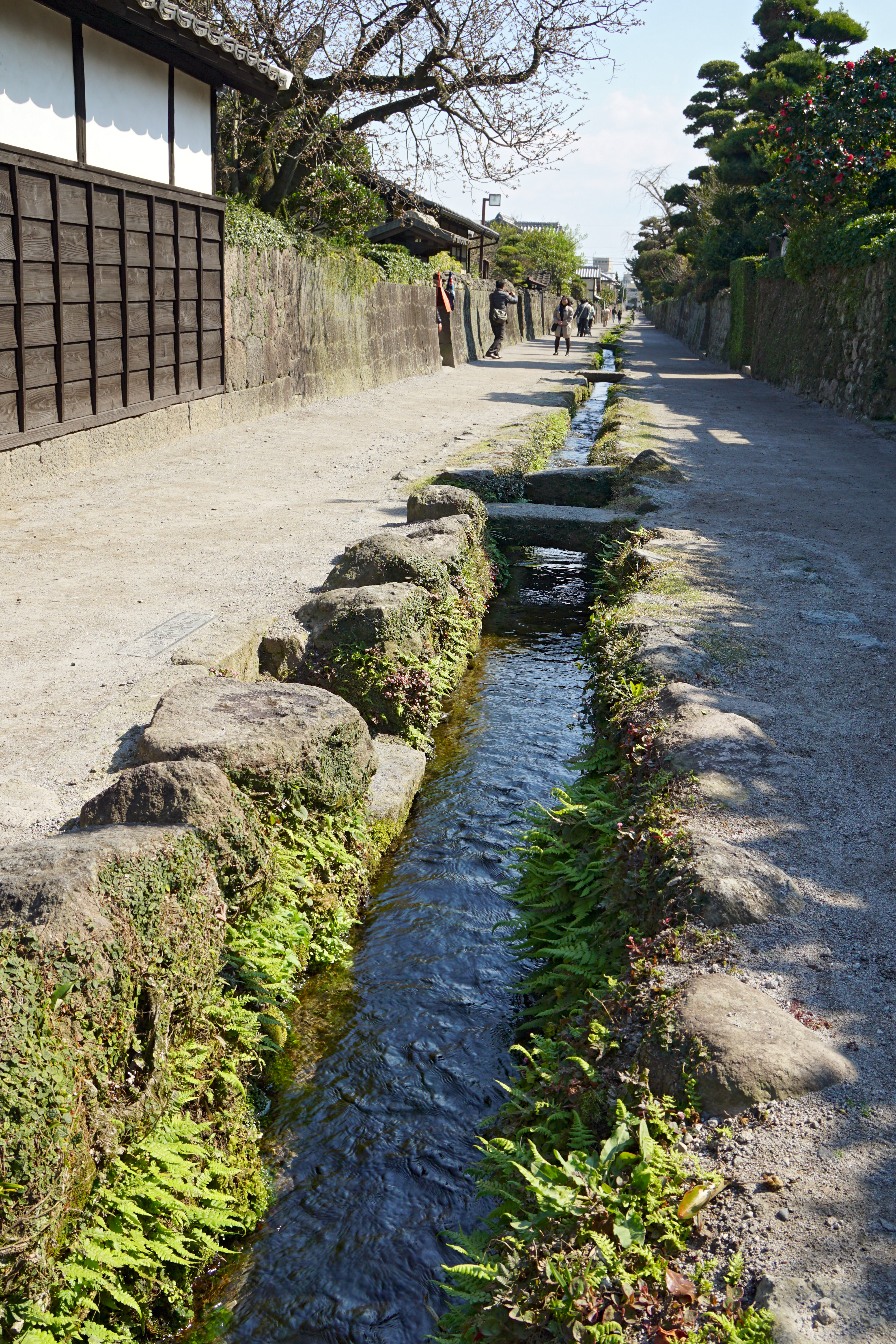 The old samurai residence town in Shimabara, Nagasaki prefecture, Japan.